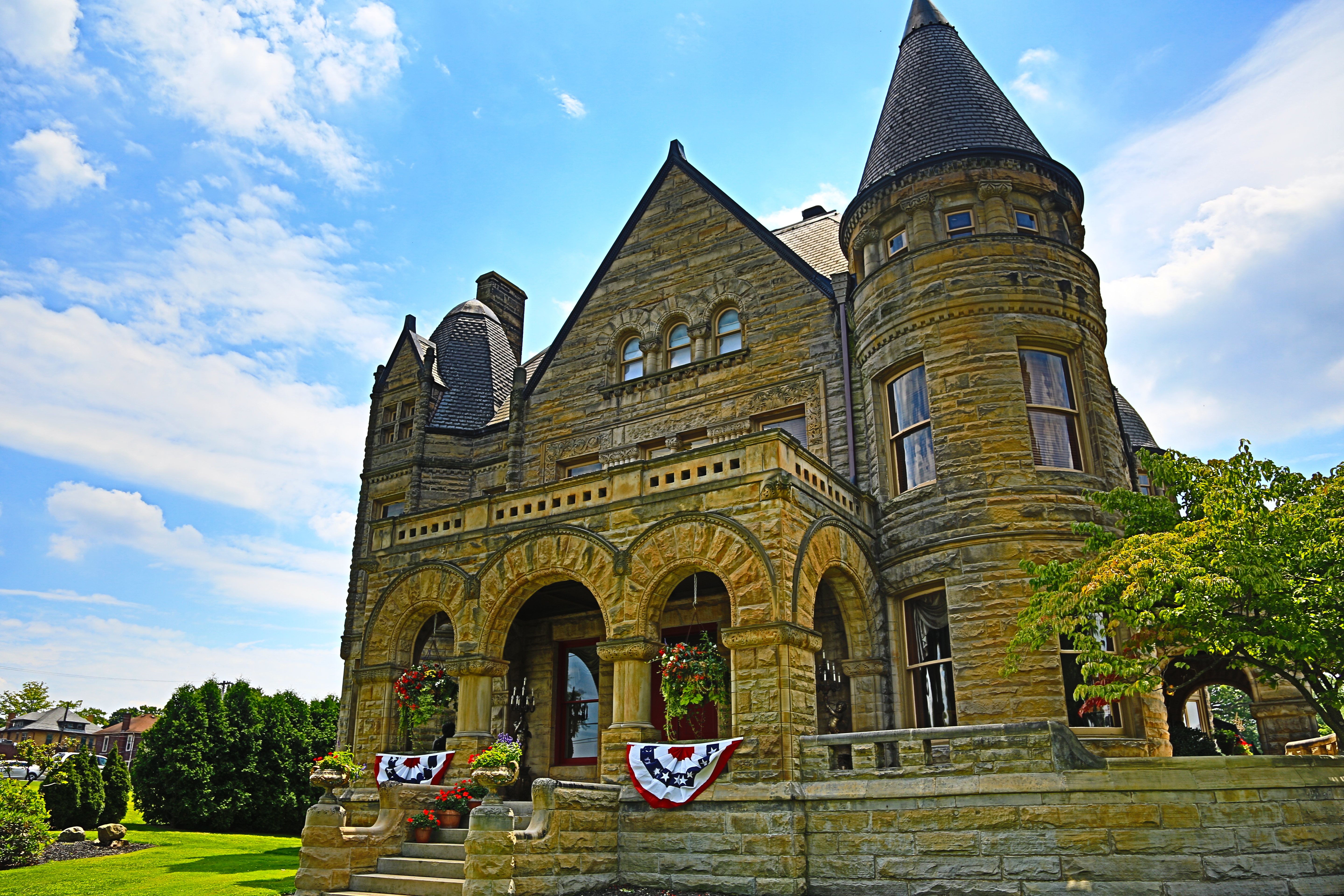 ShareAlike — If you remix, transform, or build upon the material, you must distribute your contributions under the same license as the original. Camera: Canon EOS 5D Mark III Lens : EF24-105mm f/4L IS USM at 24 mm Light Setting: f/5 1/500 s ISO 100